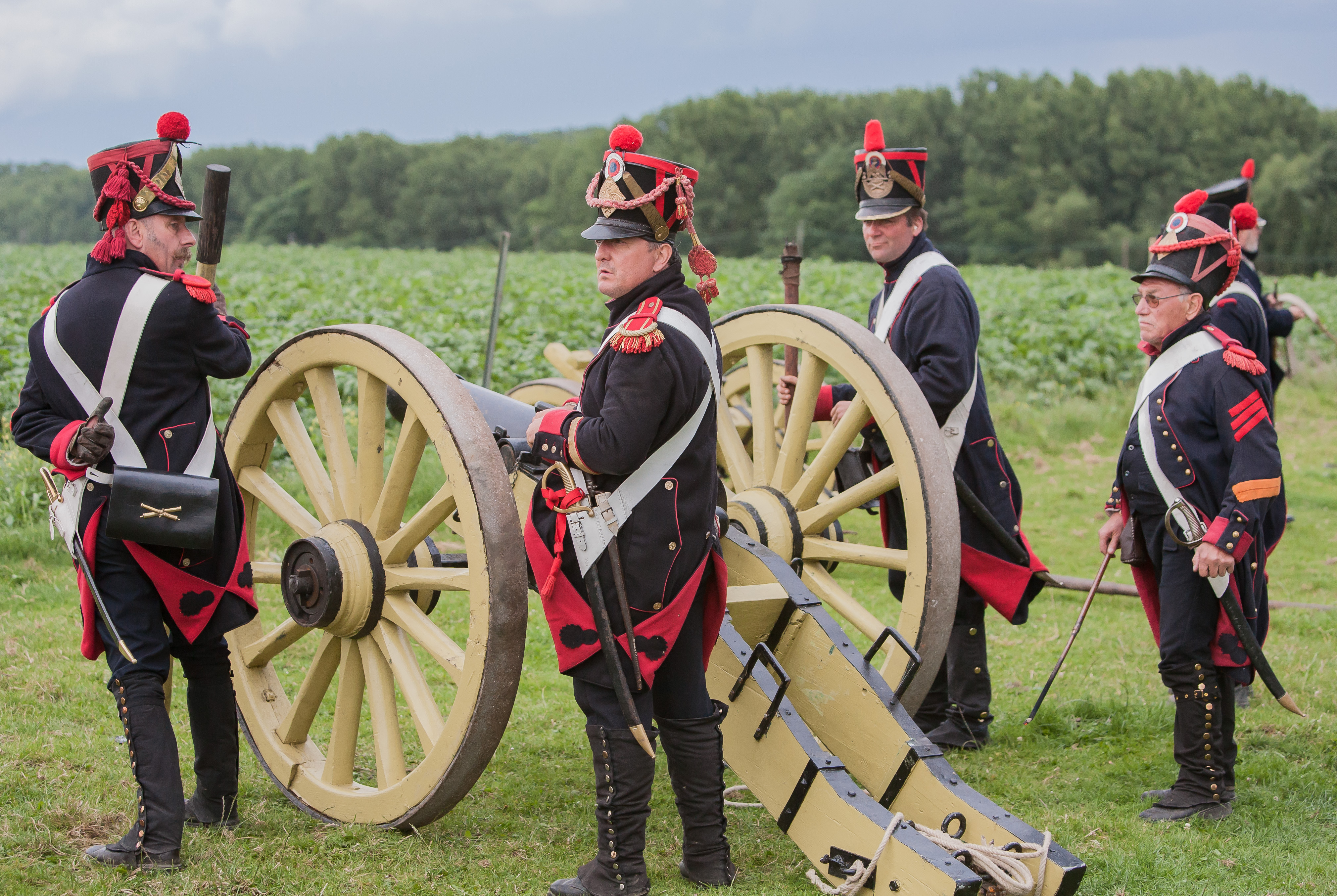 Battle of Waterloo reenactment